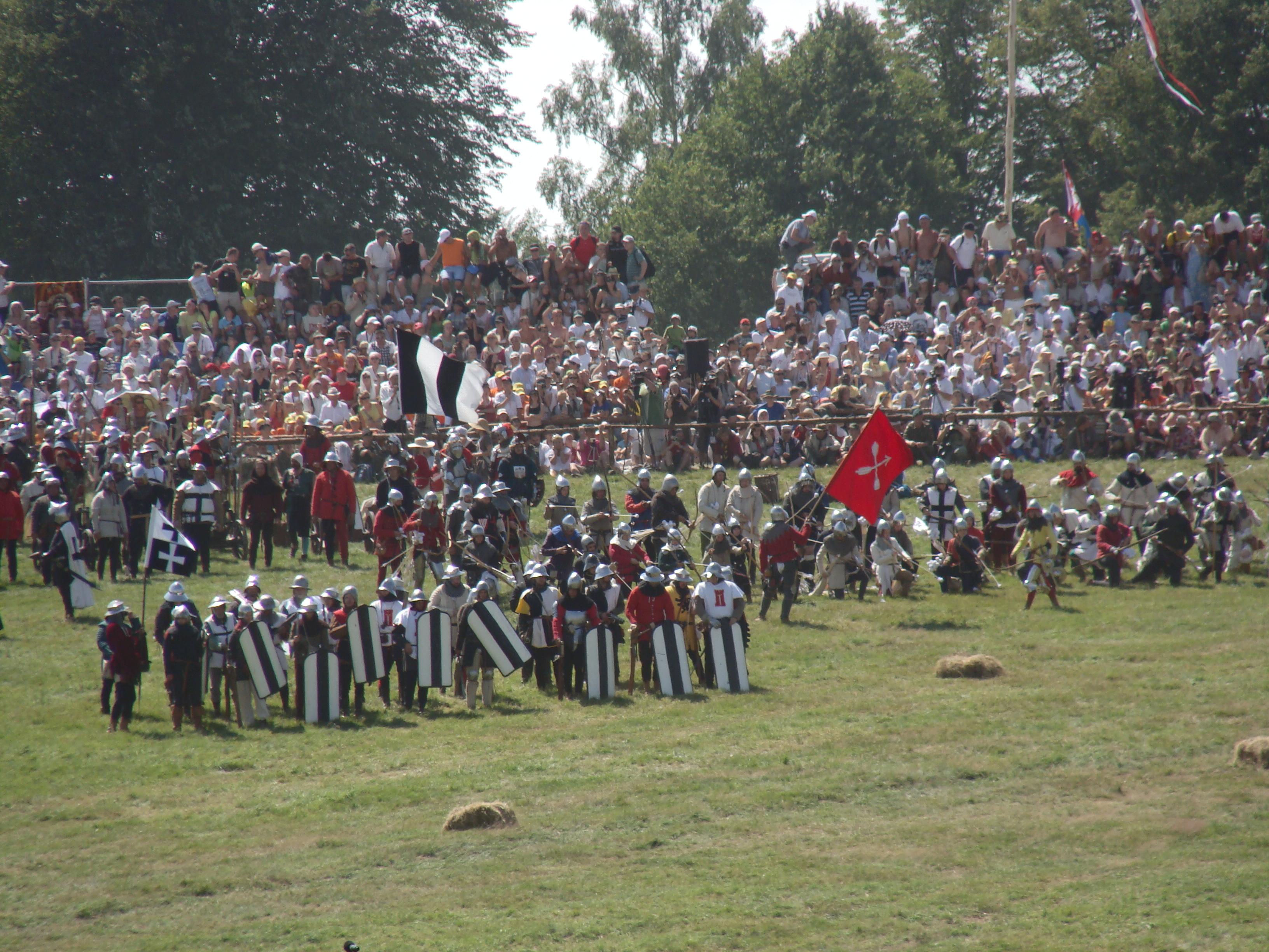 Hrunvald 2010